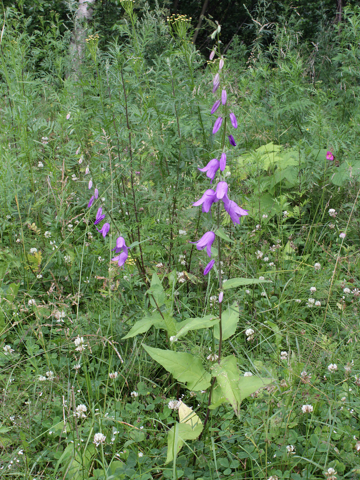 Campanulaceae, Campanula rapunculoides